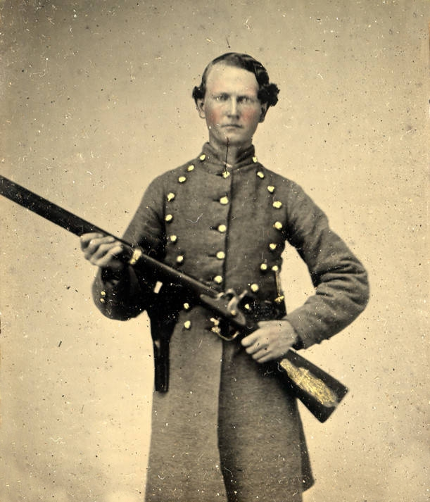 Private James Elias Pilgreen, Company K, 8th Alabama Infantry, C.S.A., Alabama Department of Archives and History